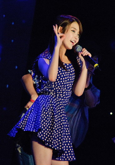 IU (Korean singer) at Disney Channel and Disney Junior launching event in South Korea, on June 29, 2011